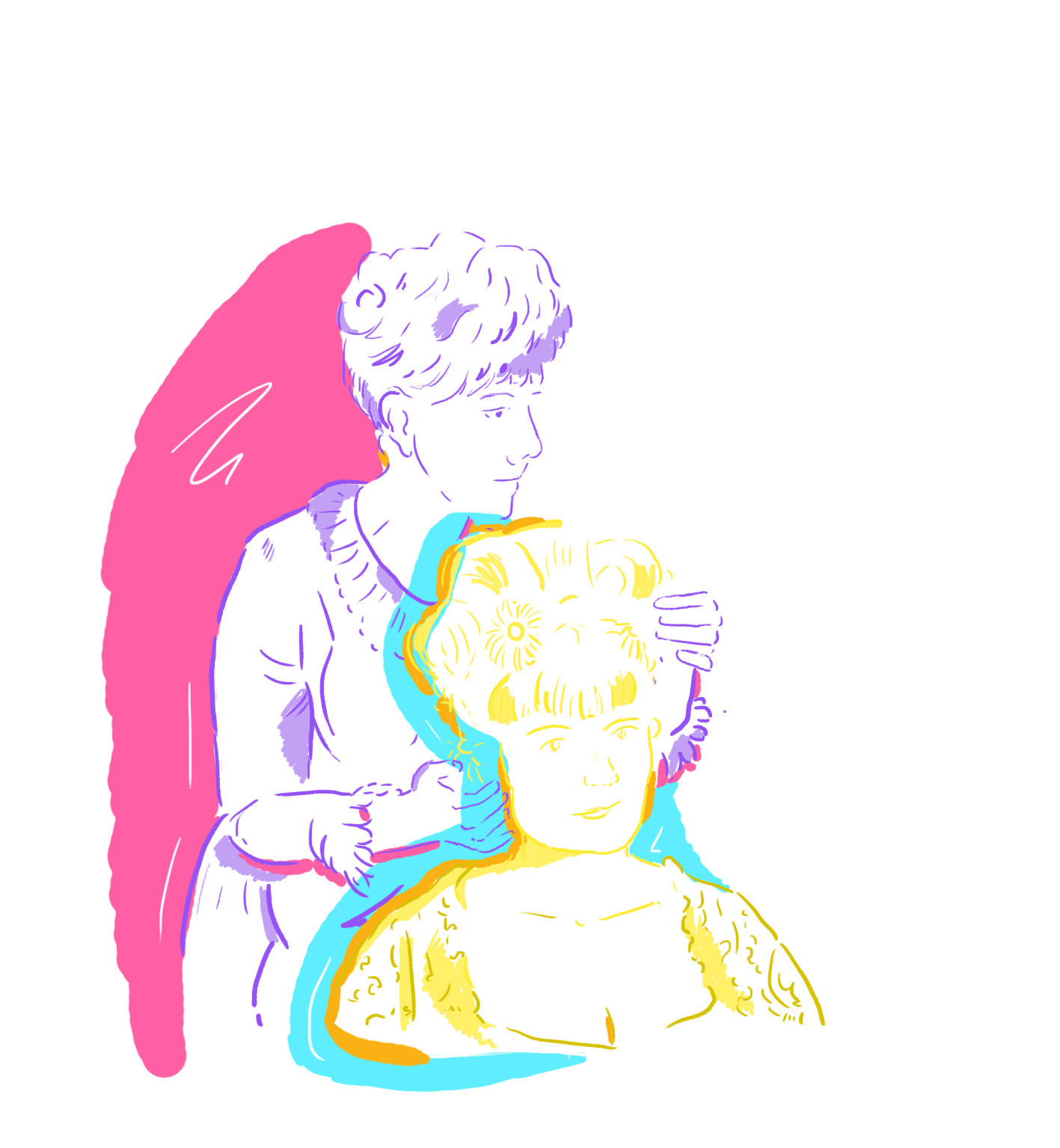 Illustration of Rose Evansky at work.